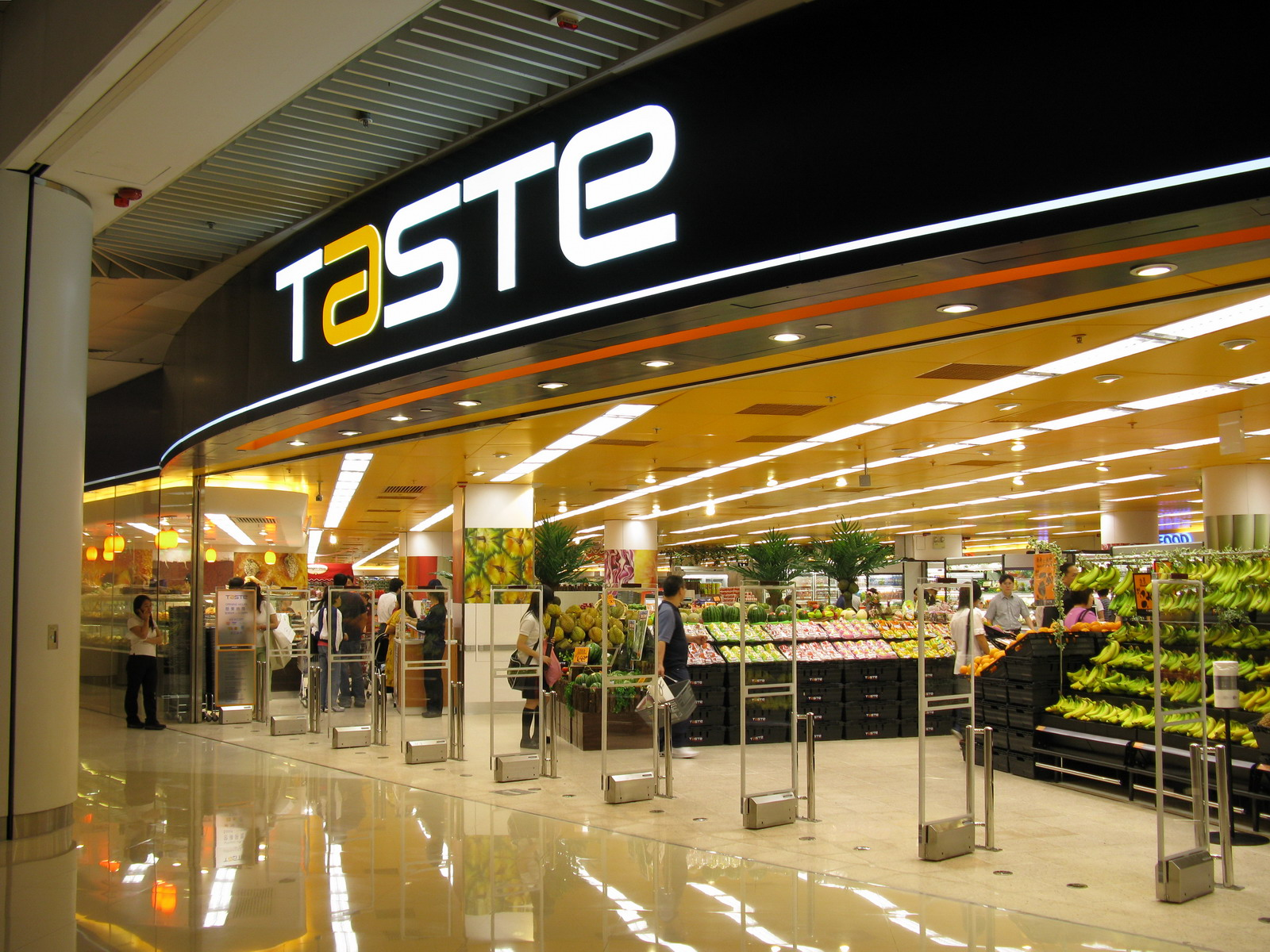 TASTE奧海城分店 A Branch Store of TASTE in Olympian City